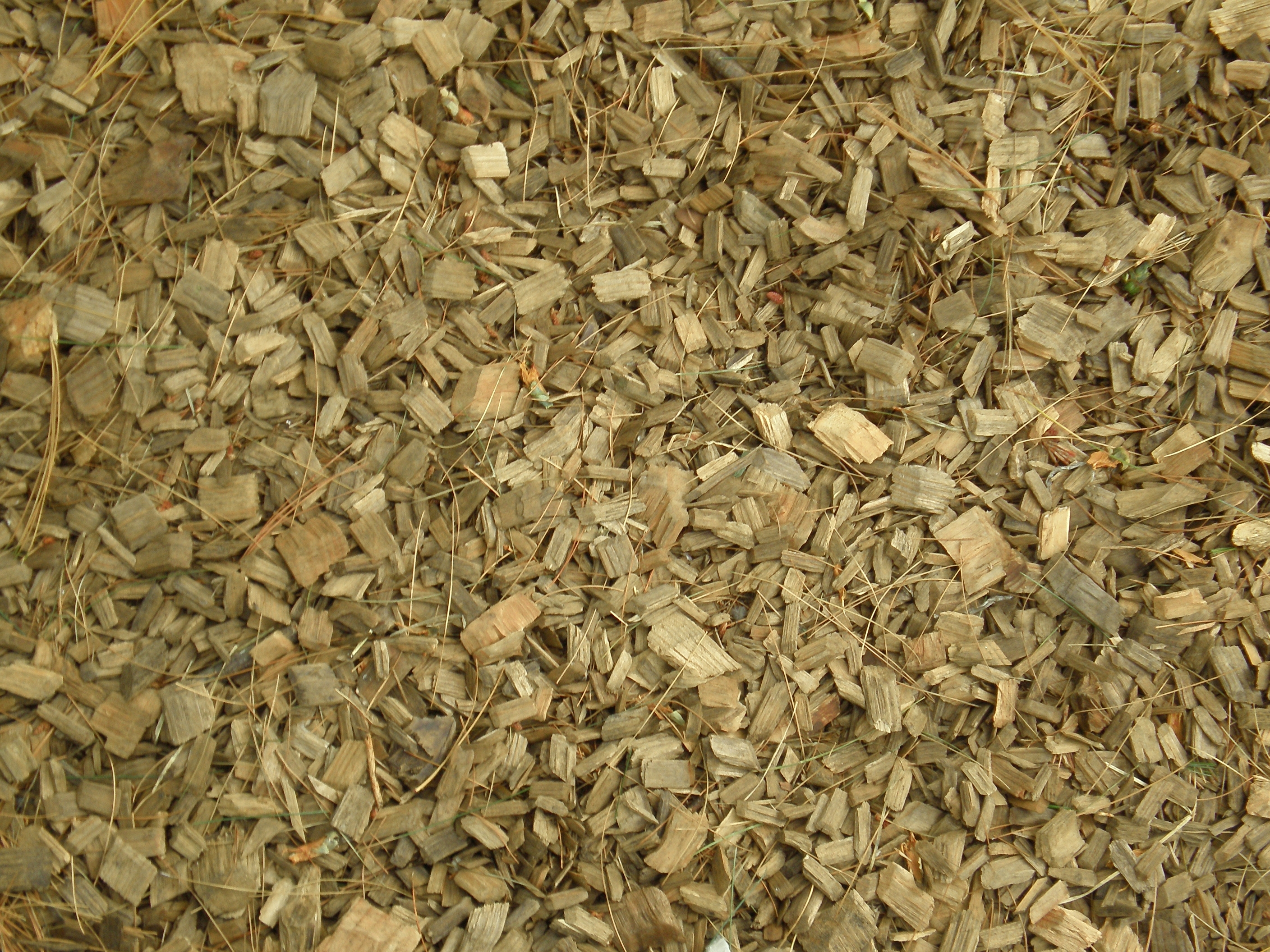 Wood Chips